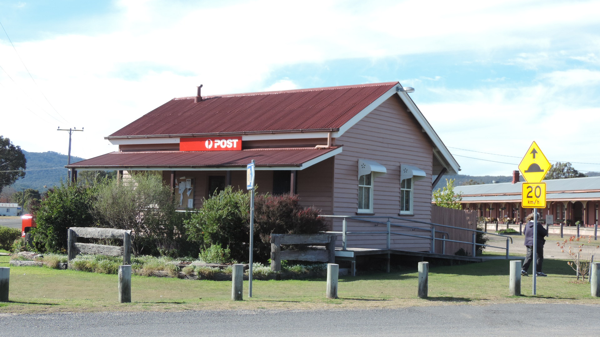 Wallangarra Post Office, 2015